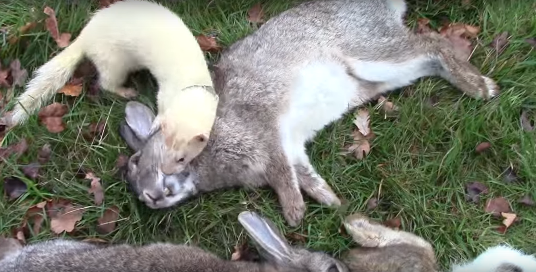 Intro to rabbit hunting, using ferrets, on a UK pest control contract.